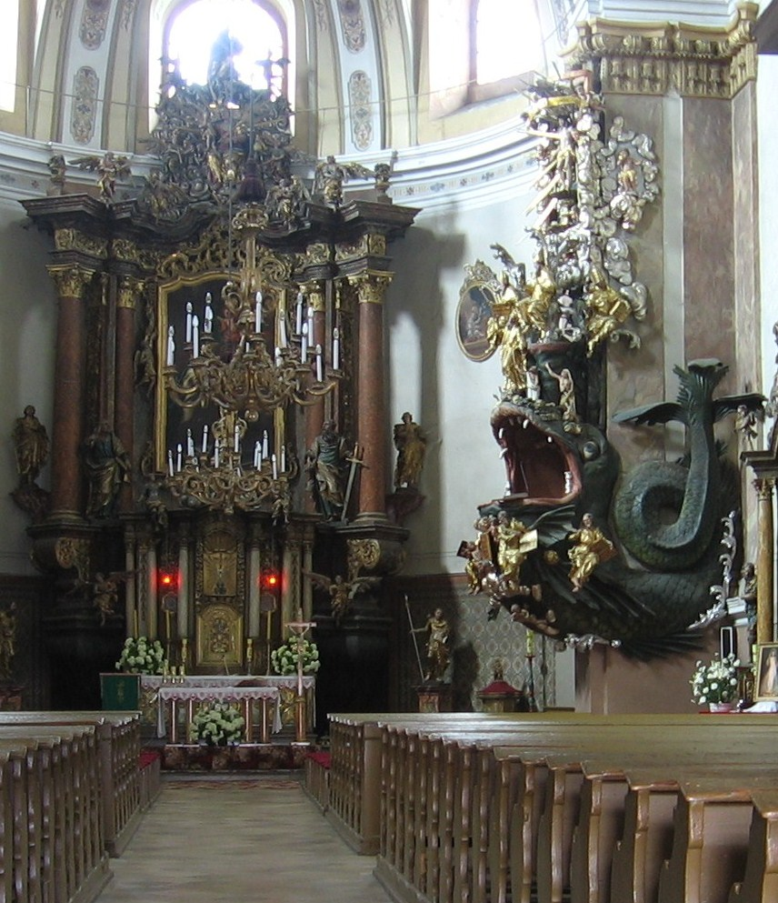 Fish Česky: Velryba